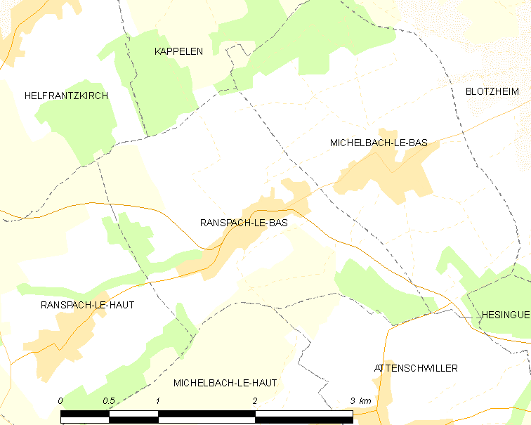 Map of French municipality